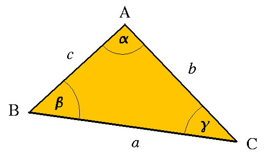 A triangle with labeled corners and edges.